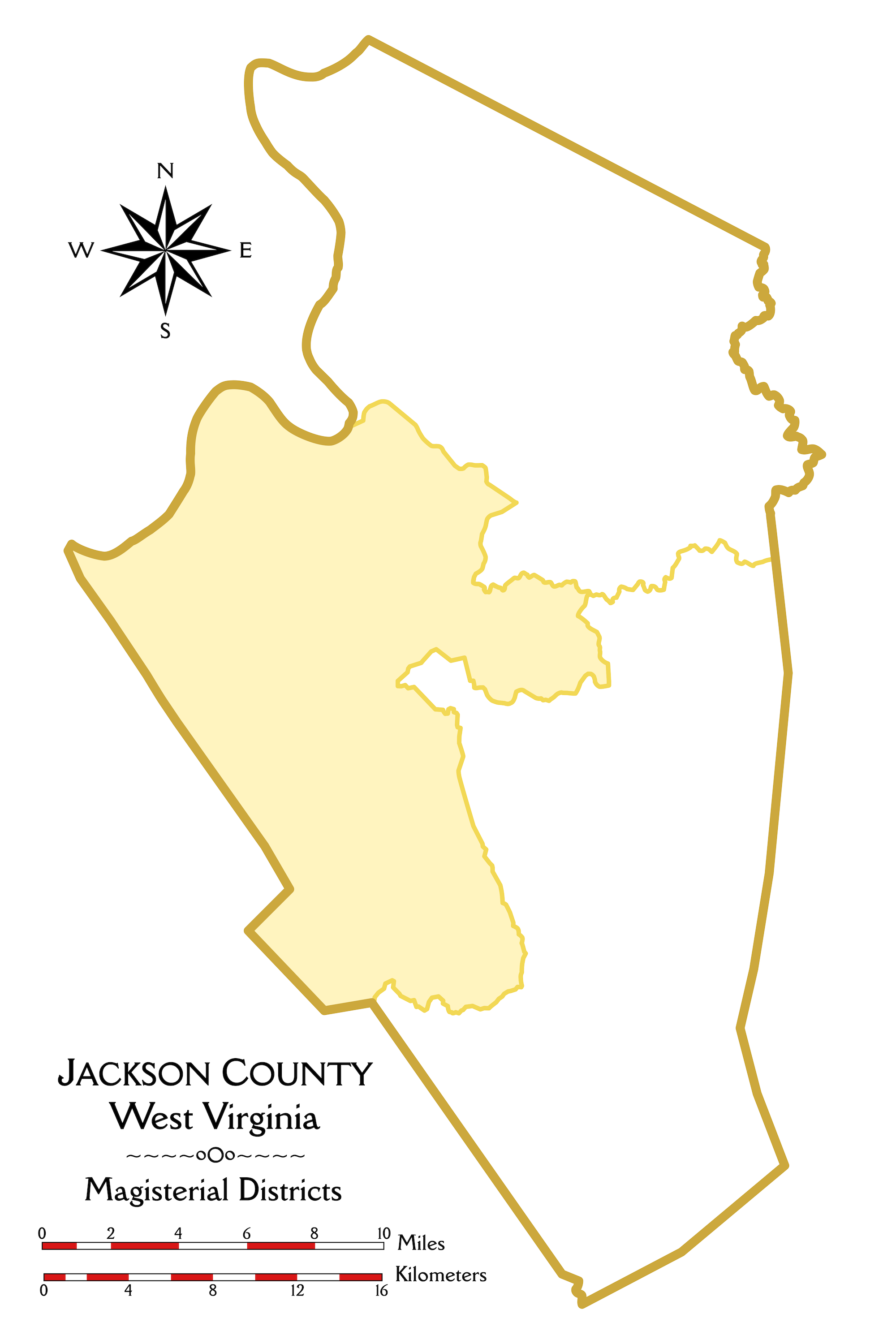 Outline map of Jackson County, West Virginia, showing the boundaries of the magisterial districts. The Western Magisterial District is shaded.